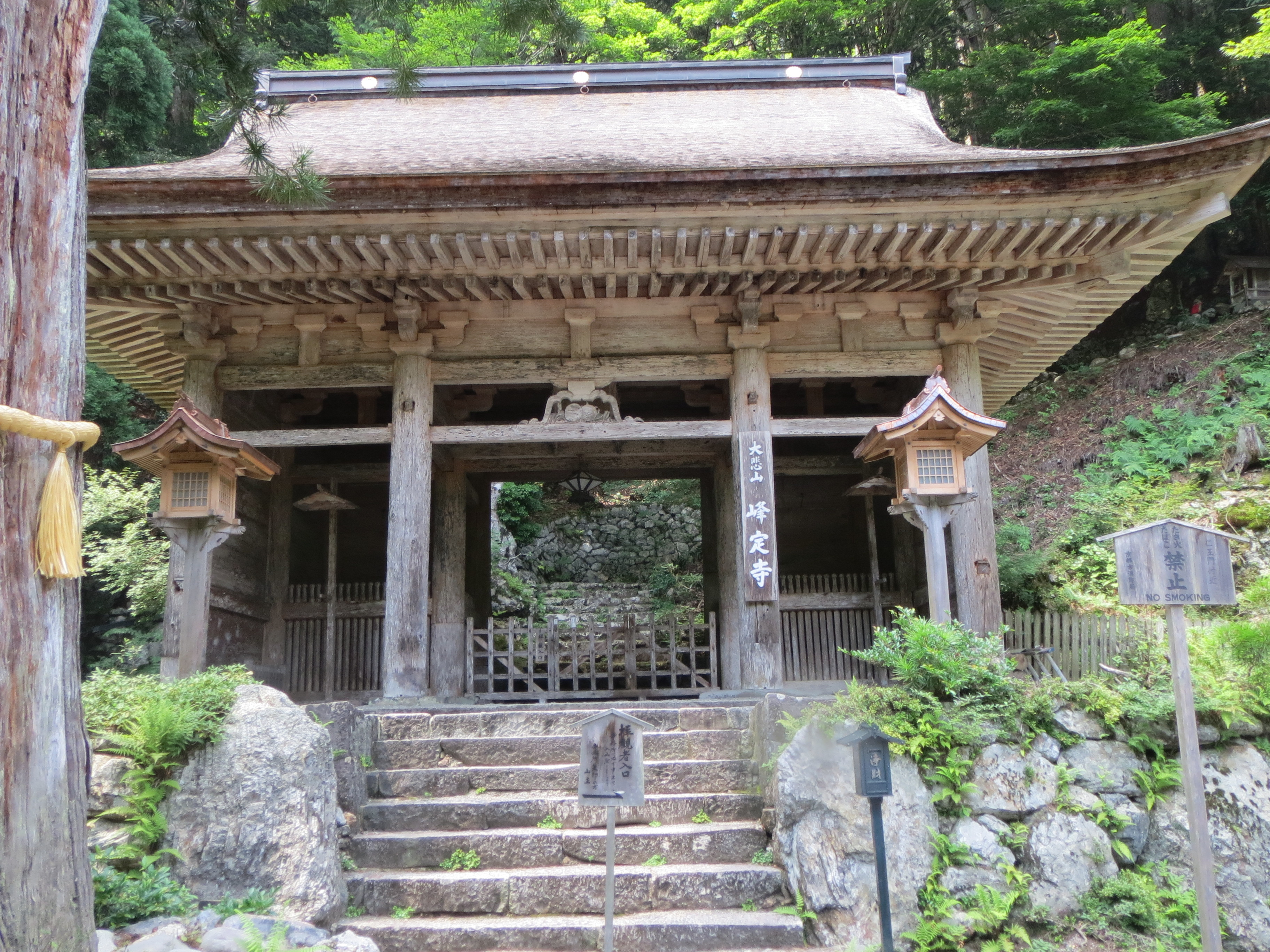 Bujoji Temple in Kyoto, Japan